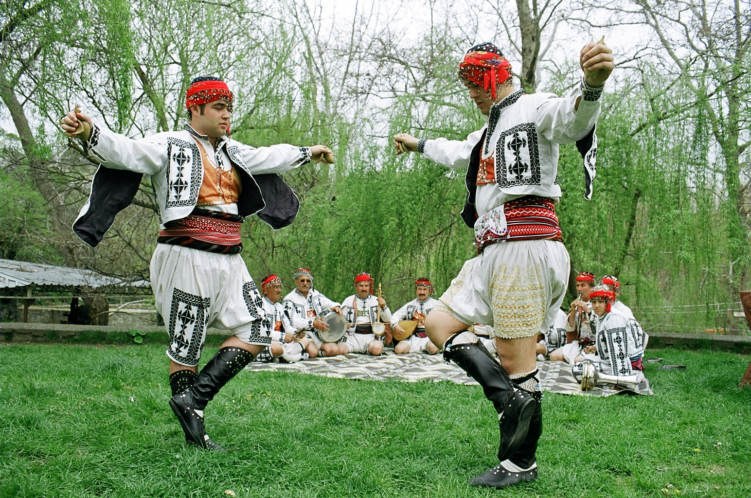 Barana (folk dance) group (Dursunbey, Balıkesir)